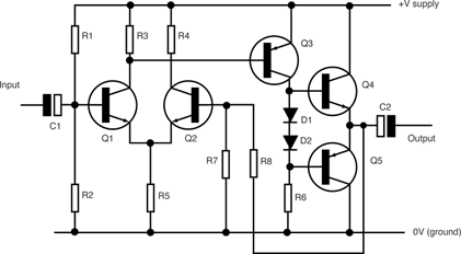 circuit of amplifier created to go with article